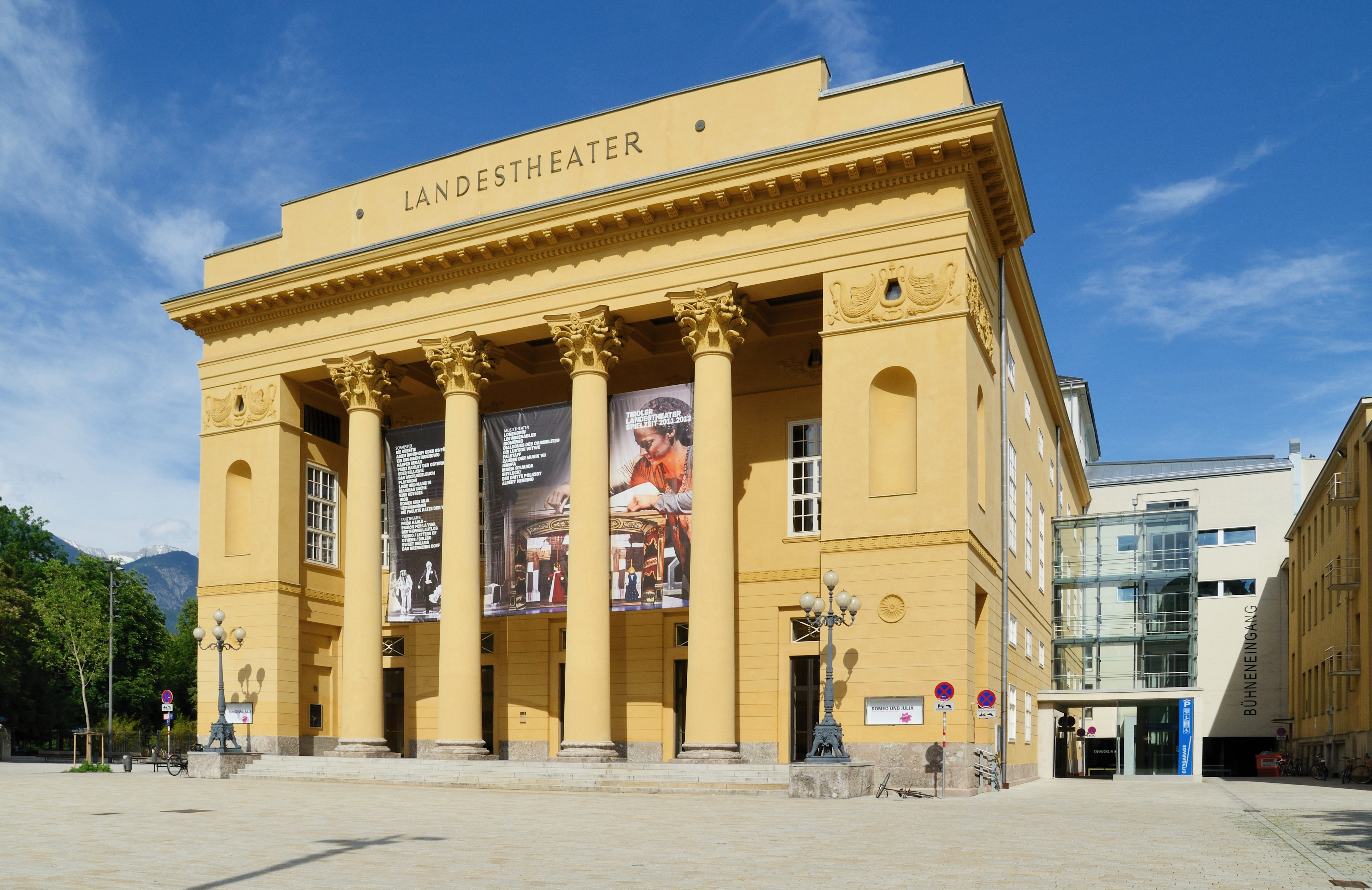 Innsbruck: Theatre of the federal state Tyrol